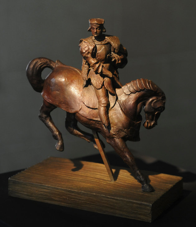 Original bronze casting of Leonardo Da Vinci's Horse and Rider.